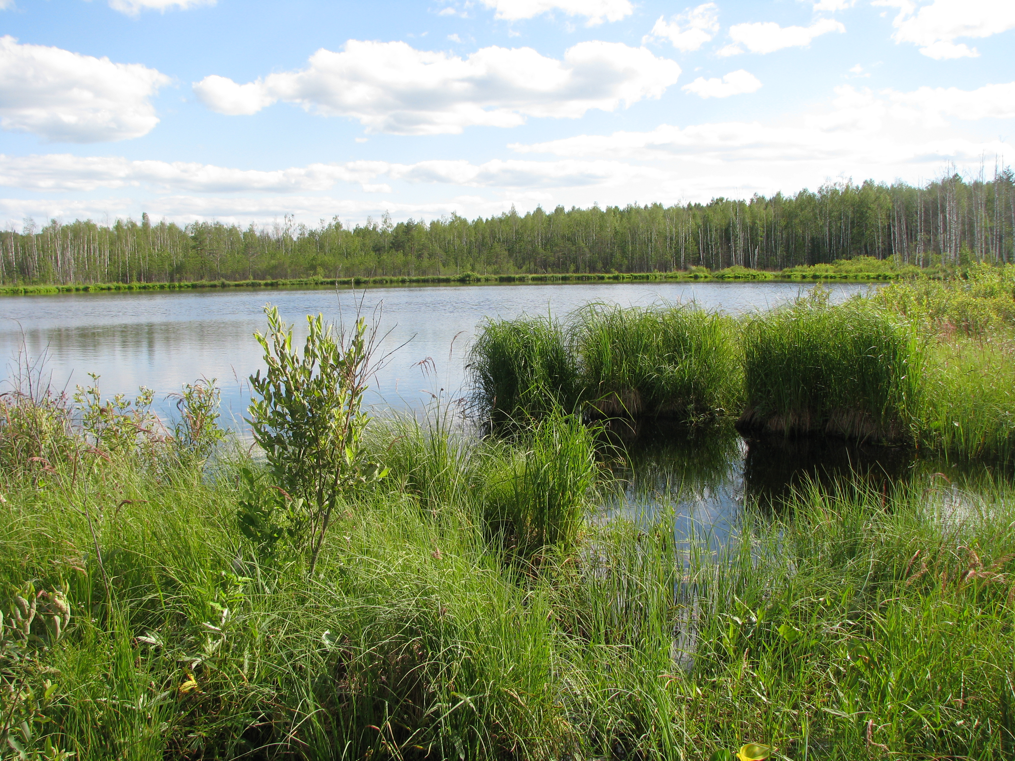 Lake Bol'shoe Rassolovo. Savincky District, Ivanovo oblast